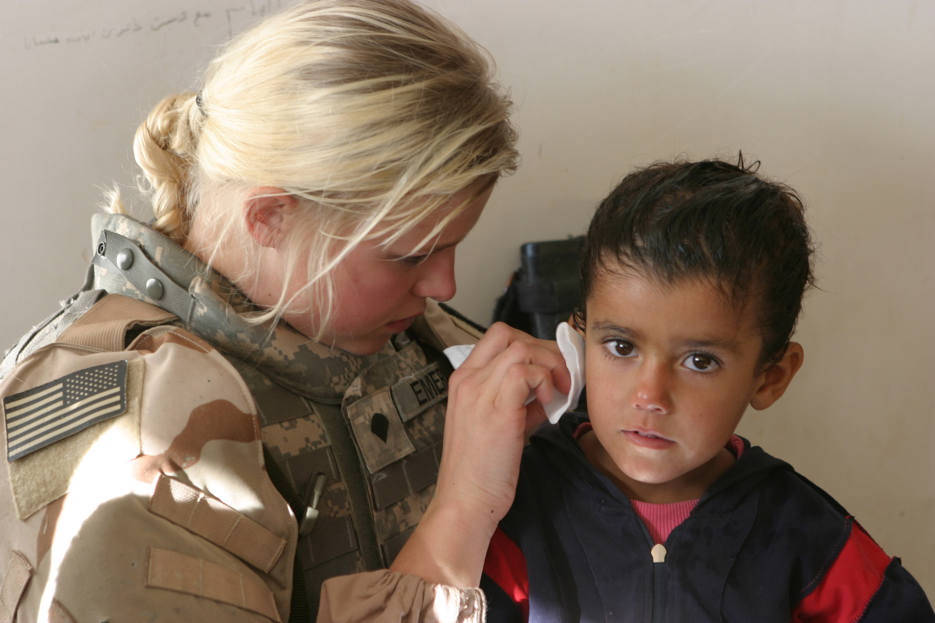 U.S. Army Spc. Taryn Emery cleans the ear of an Iraqi child during a humanitarian assistance mission in Qaryat Al Majarrah, Iraq, on Nov. 27, 2006. Emery is attached to the Armyís 2nd Battalion, 136th Infantry Regiment.